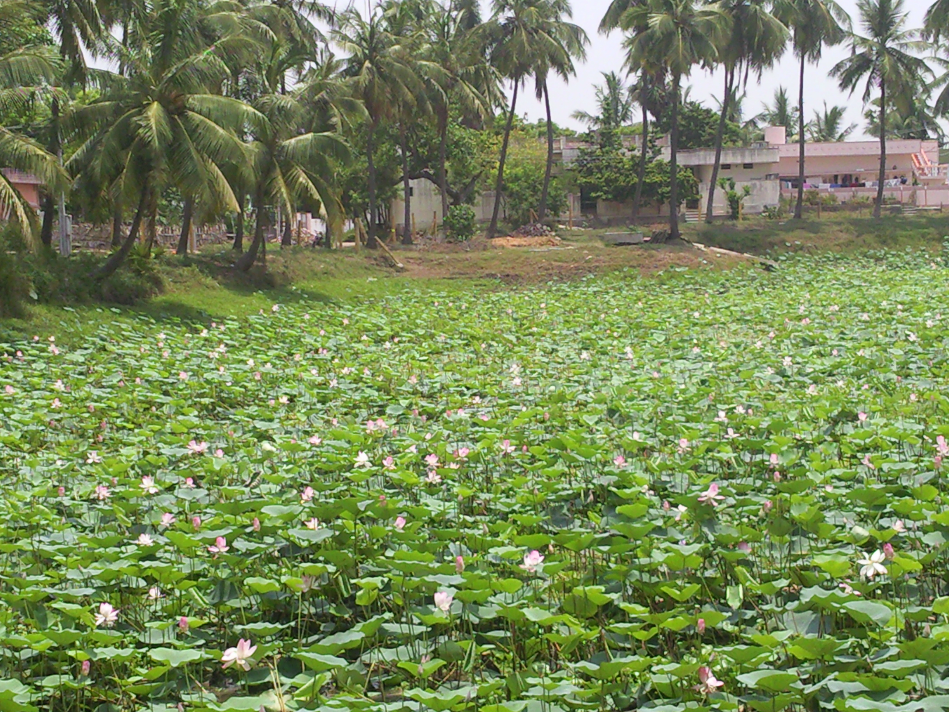 on one fine morning, pond full of louts in gudivada krishna district . andhra pradesh